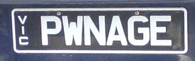 Registration plate is personalised. From Victoria